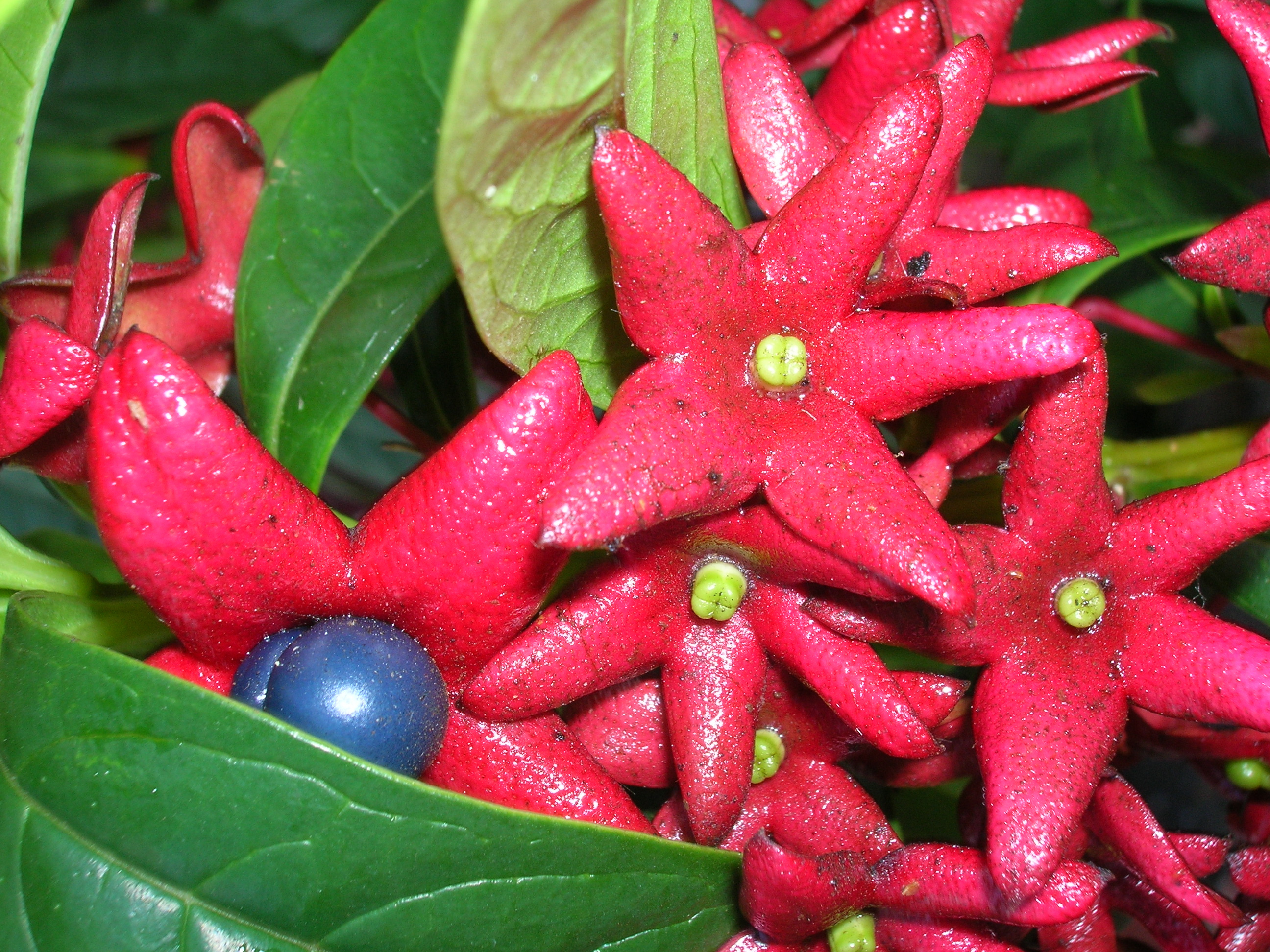 Clerodendrum indicum (flowers and fruit). Location: Oahu, Bishop Museum